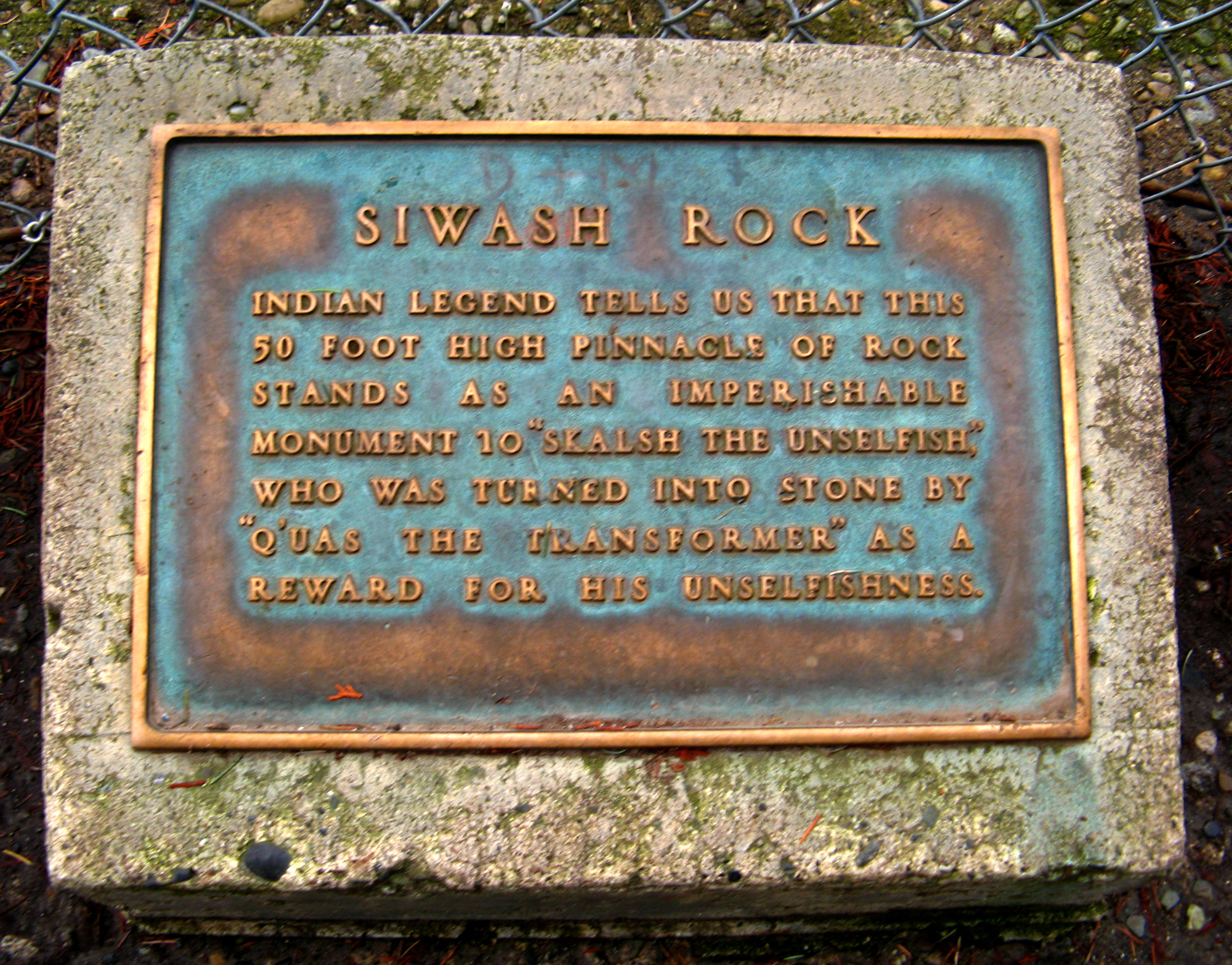 Siwash Rock Plaque, Stanley Park, Vancouver, Canada